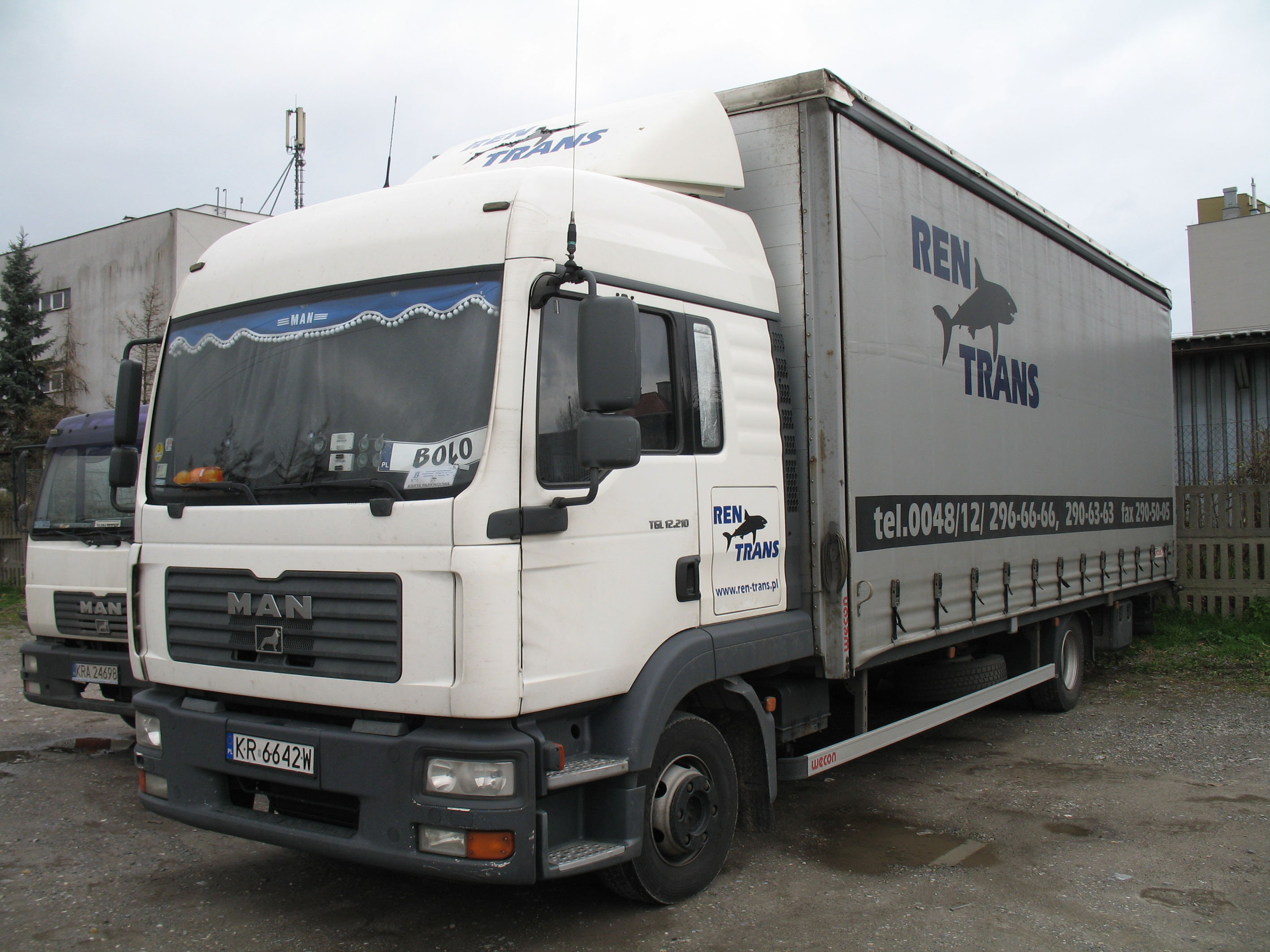 MAN TGL 12.210 truck in Kraków, Poland. Ren Trans from Kraków operator.